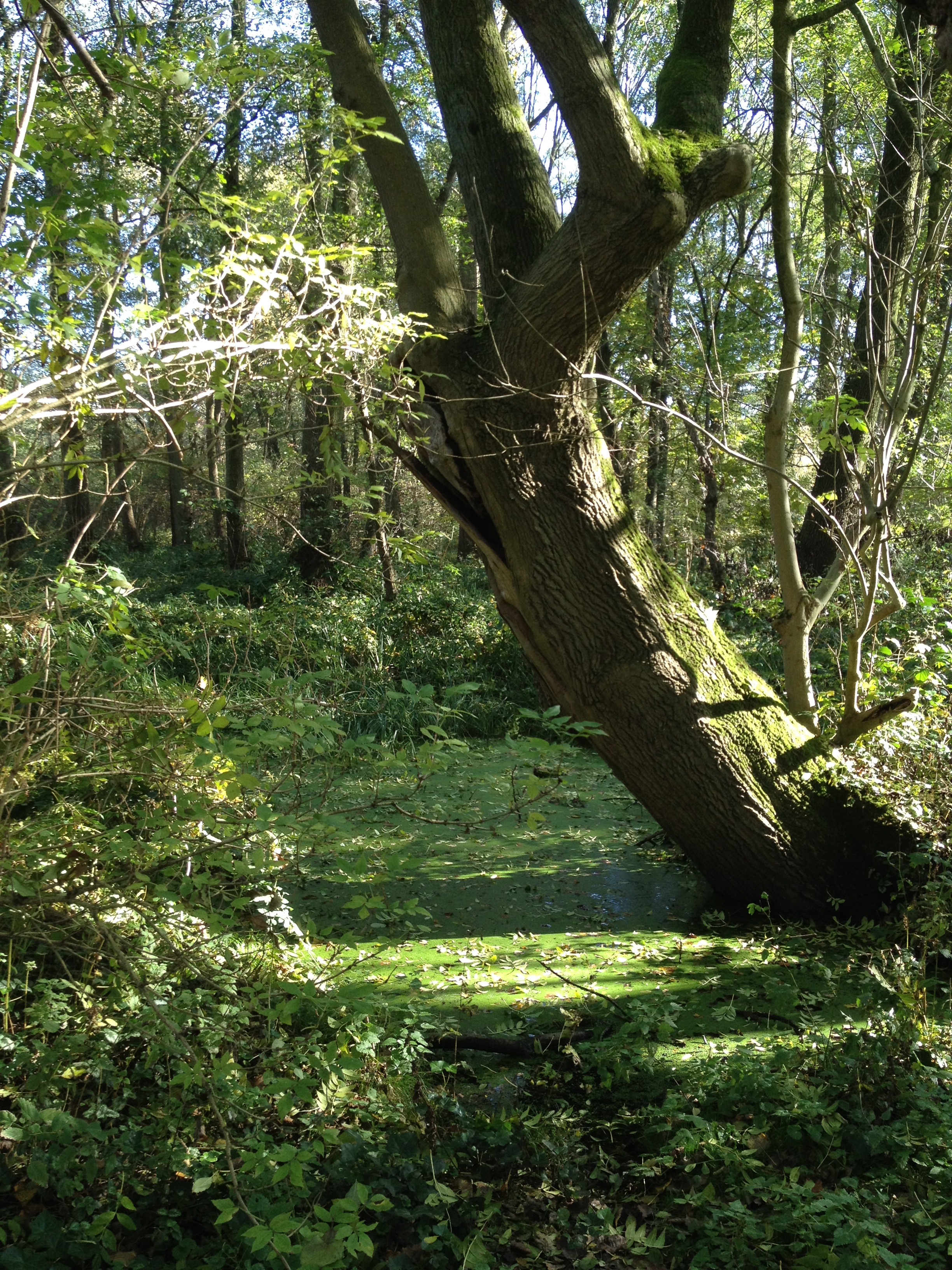 The "Tuedderner Venn" is a beautiful swamp landscape alongside the river Rode, marking in part the border between Germany and The Netherlands.